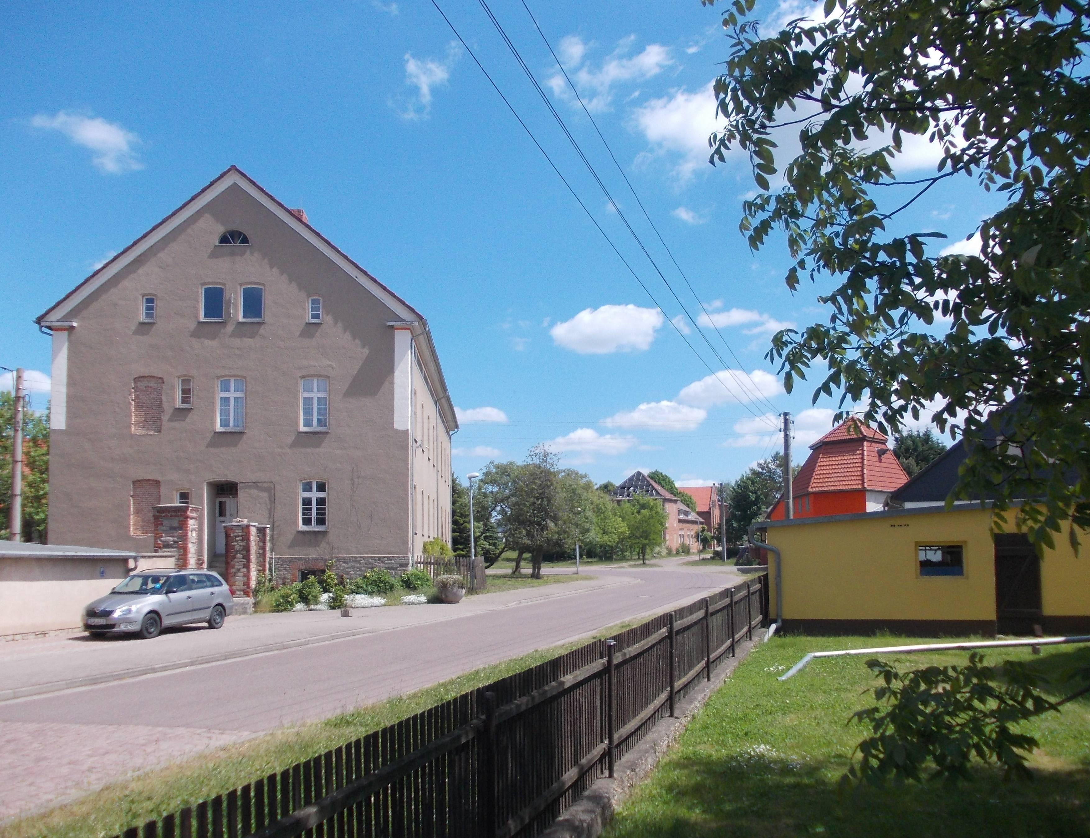 Former school in Gerlebogk (Könnern, district: Salzlandkreis, Saxony-Anhalt)